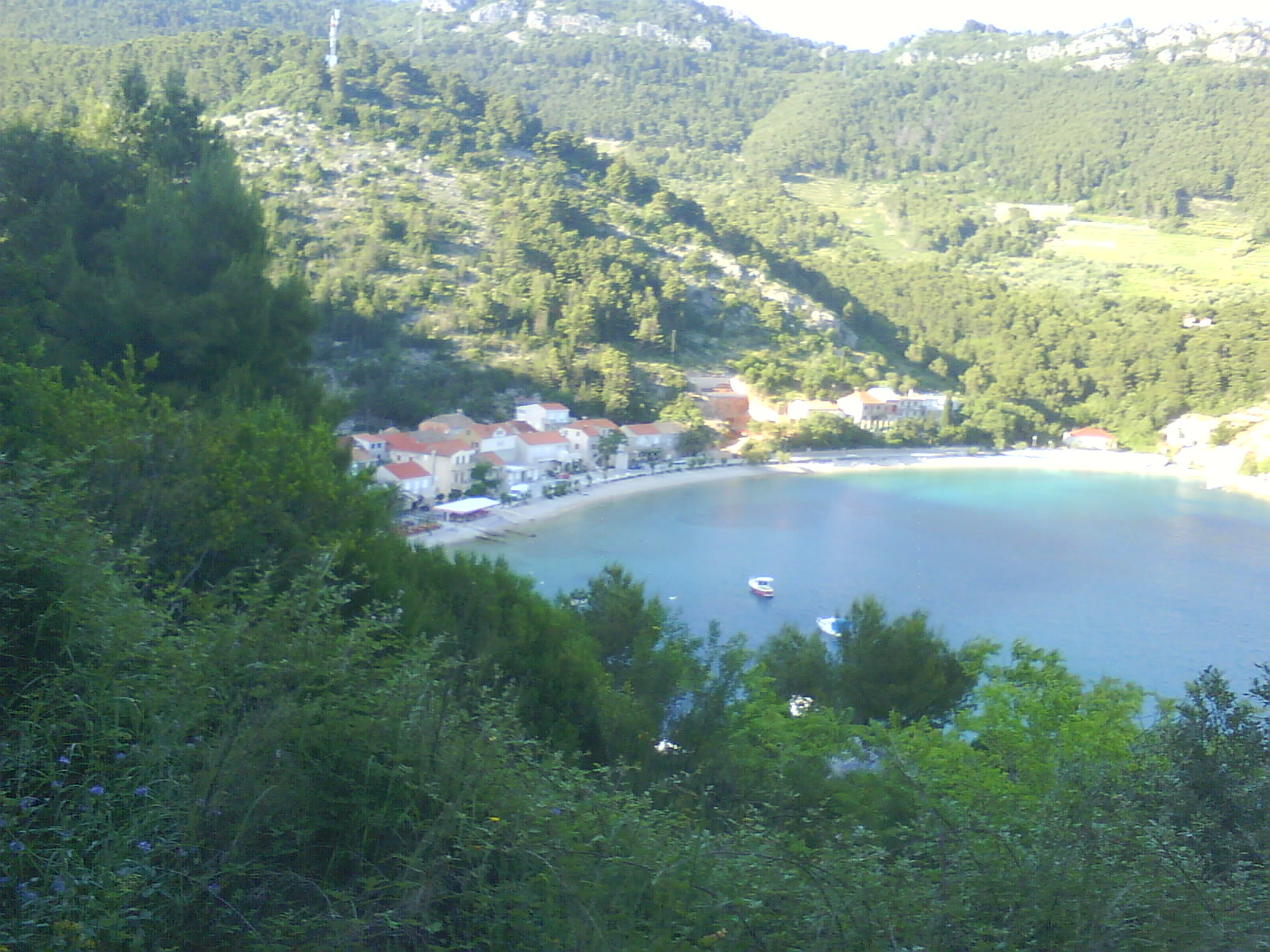 village Trstenik,municipality of Orebić